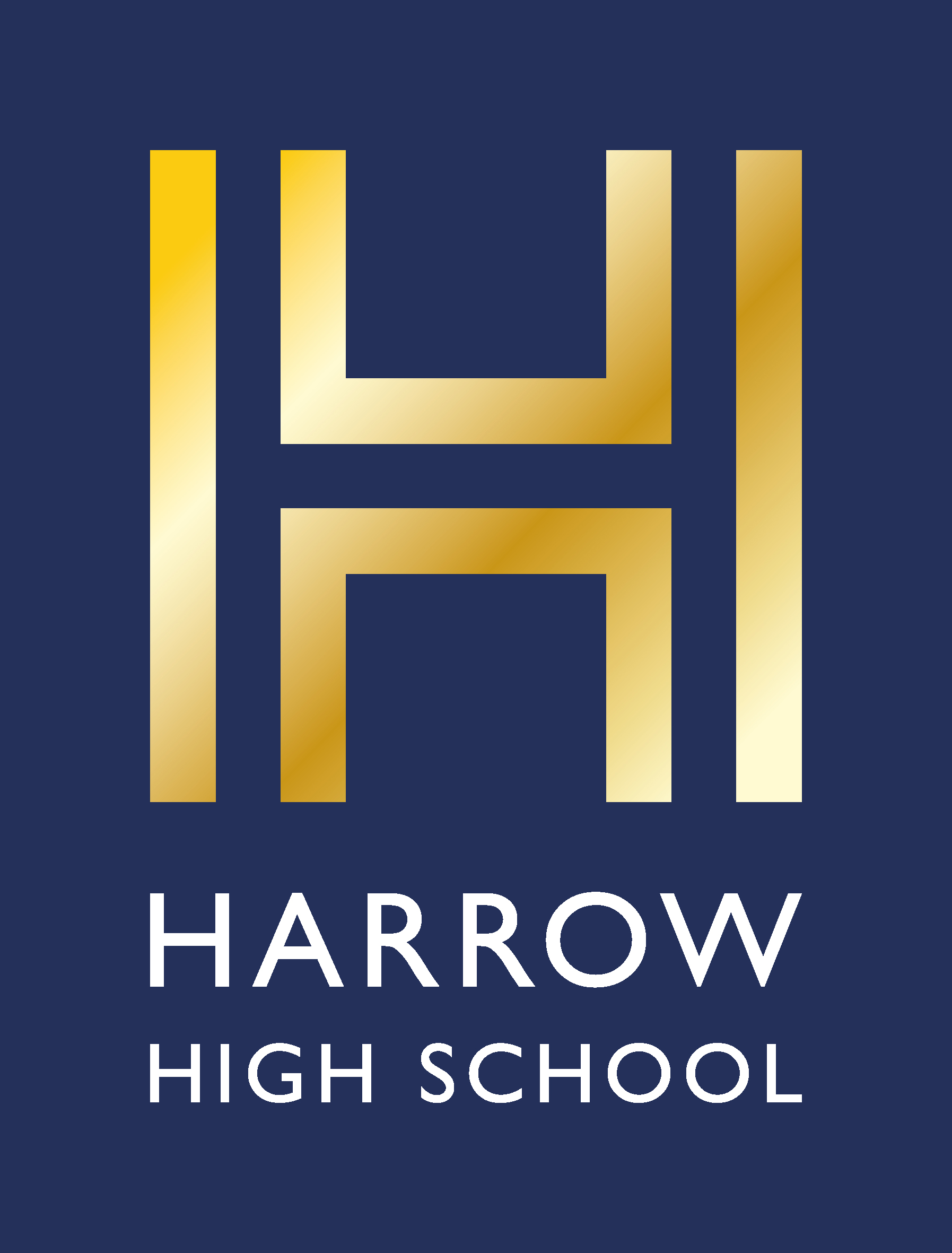 Harrow High School LOGO